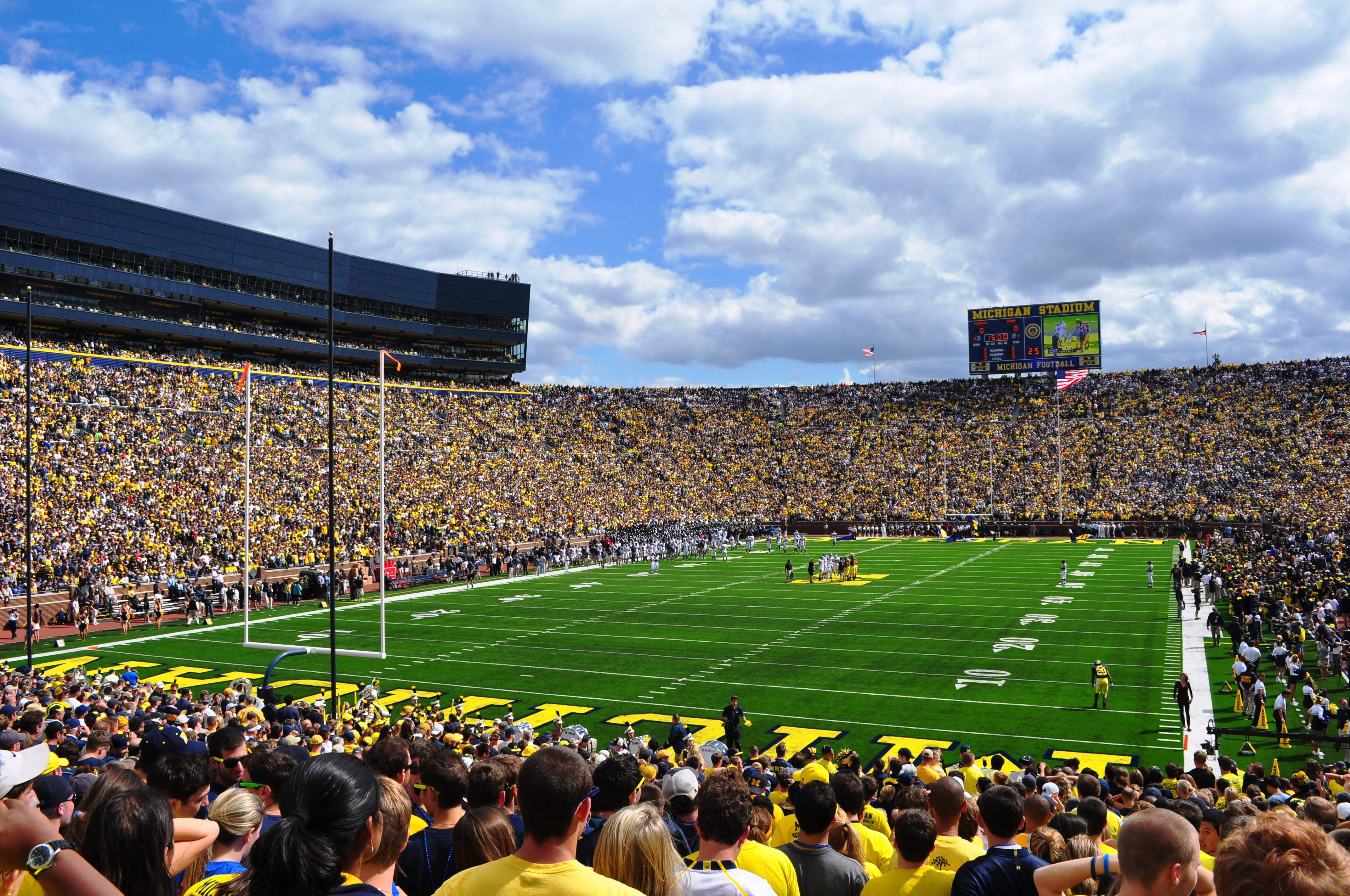 University of Michigan Stadium September 4, 2010 game against the University of Connecticut